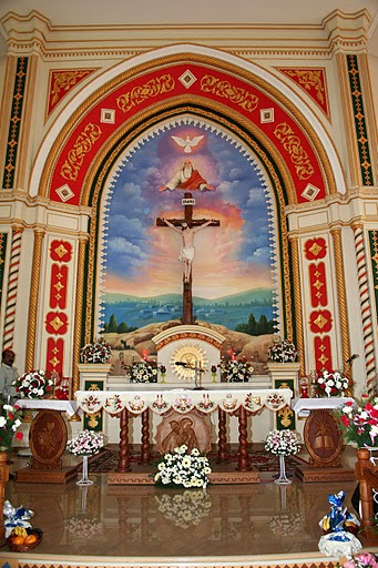 Naveenpf (talk) 07:29, 16 April 2011 (UTC)